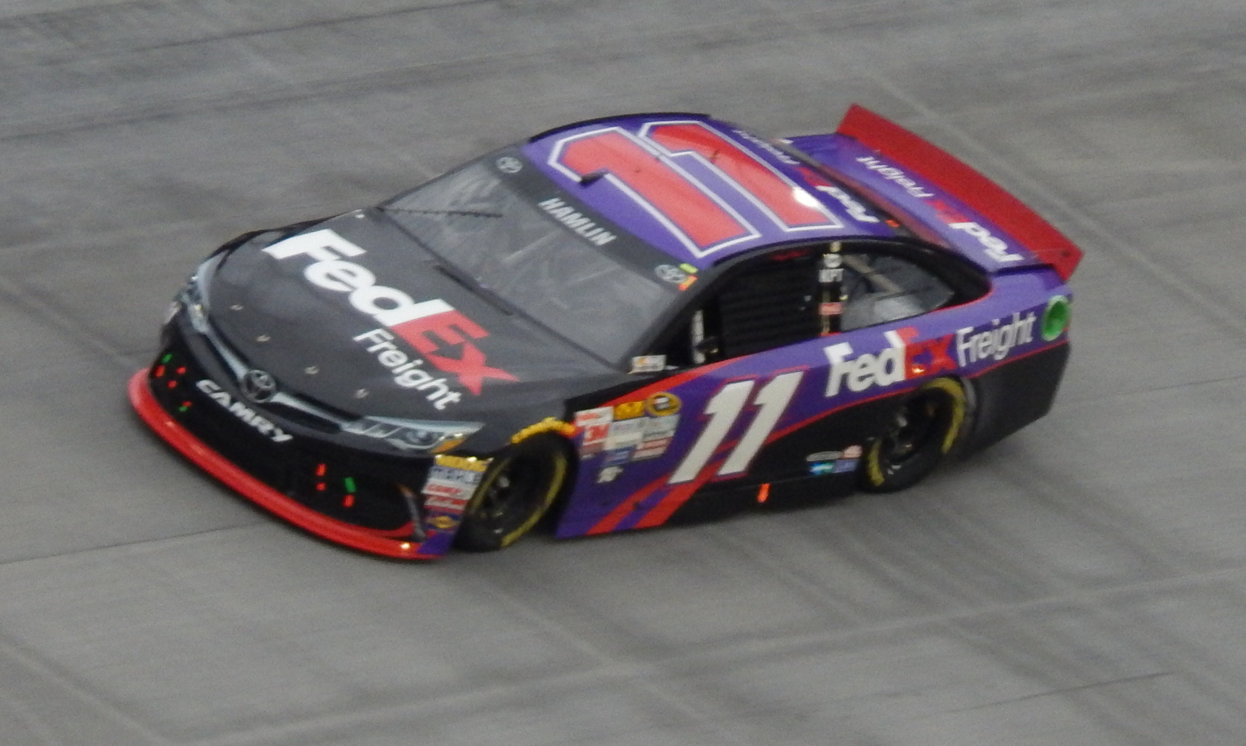 Erik Jones making his unofficial debut in the NASCAR Sprint Cup Series in the 2015 Food City 500.